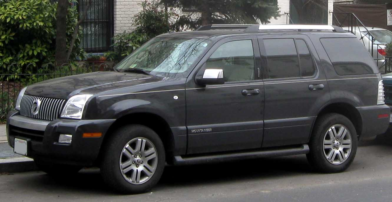 2006-2009 Mercury Mountaineer photographed in Washington, D.C., USA.